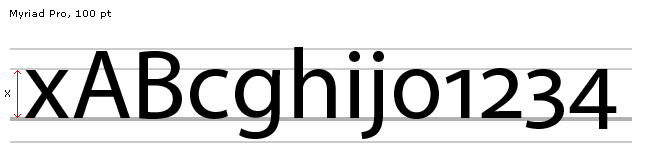 The x-height, marked with a red arrow and letter x, from the font Myriad Pro, 100 pt. This picture is not under copyright, however the actual font is.